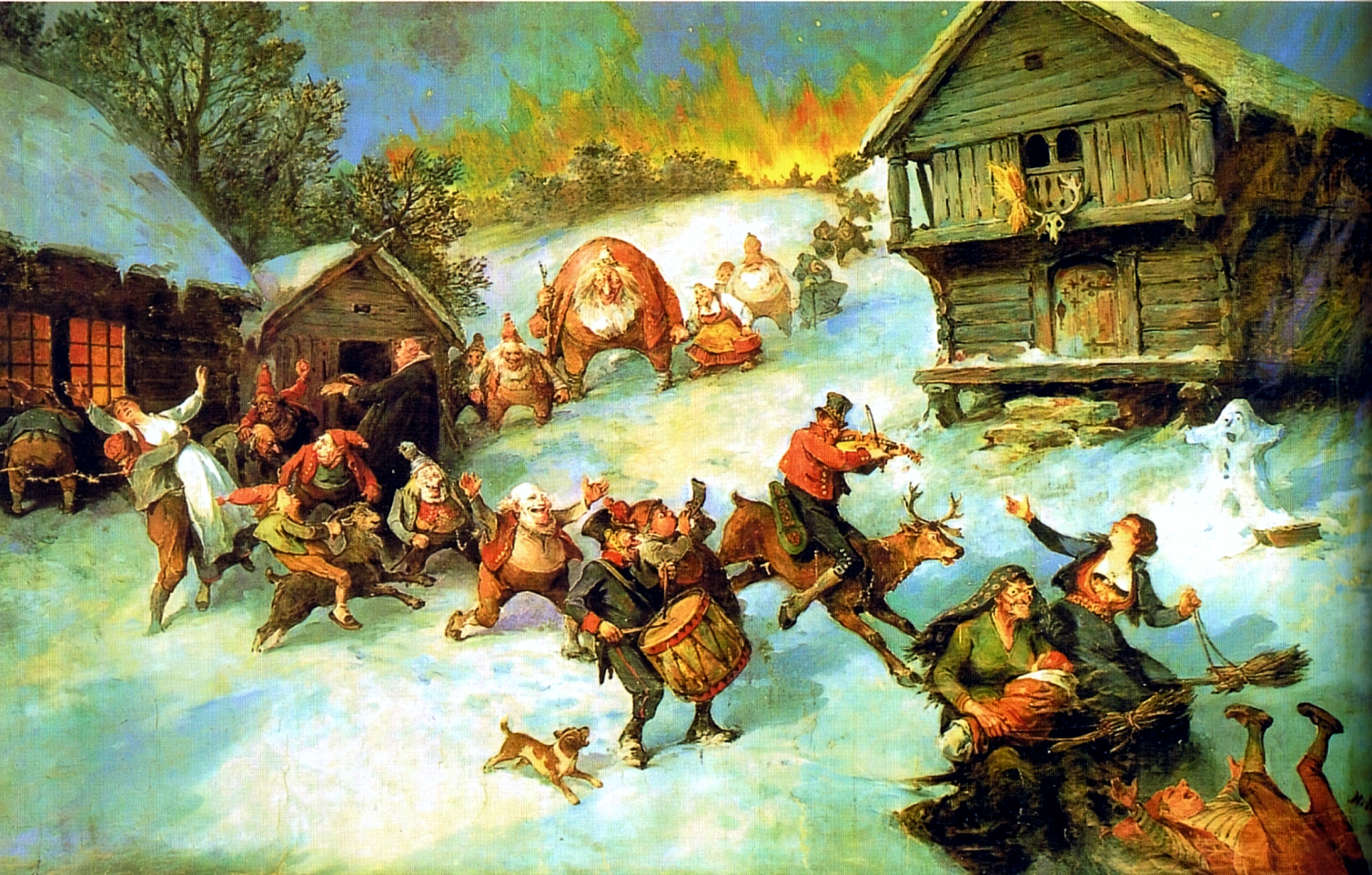 "Julereia" is some kind of "possey" consisting of goblins, witches, trolls, elfs and other obscure creatures, travelling around during christmas time in order to cause chaos and havoc.label QS:Len,""Julereia" is some kind of "possey" consisting of goblins, witches, trolls, elfs and other obscure creatures, travelling around during christmas time in order to cause chaos and havoc."label QS:Lno,"Julereia er et følge av underjordiske, vetter, trollkjerringer, drukkenbolter, drapsmenn og annet pakk på julenatten. Omtrent det samme som Oskoreia."